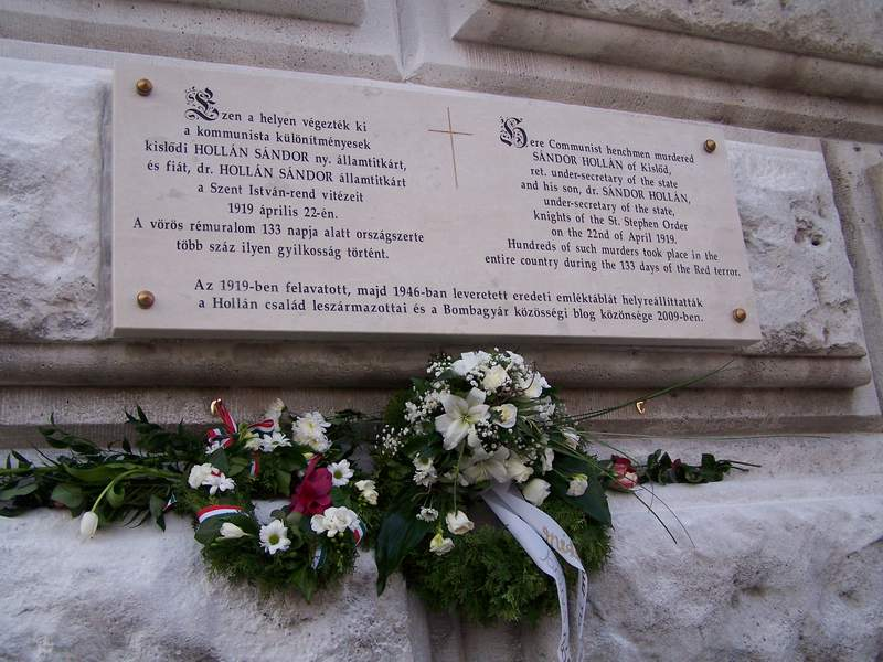 Plaque of Sándor Hollán and his son. Budapest District I, Chain Bridge.